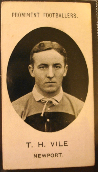 Tommy Vile, Wales international rugby union player, British Lion and Newport